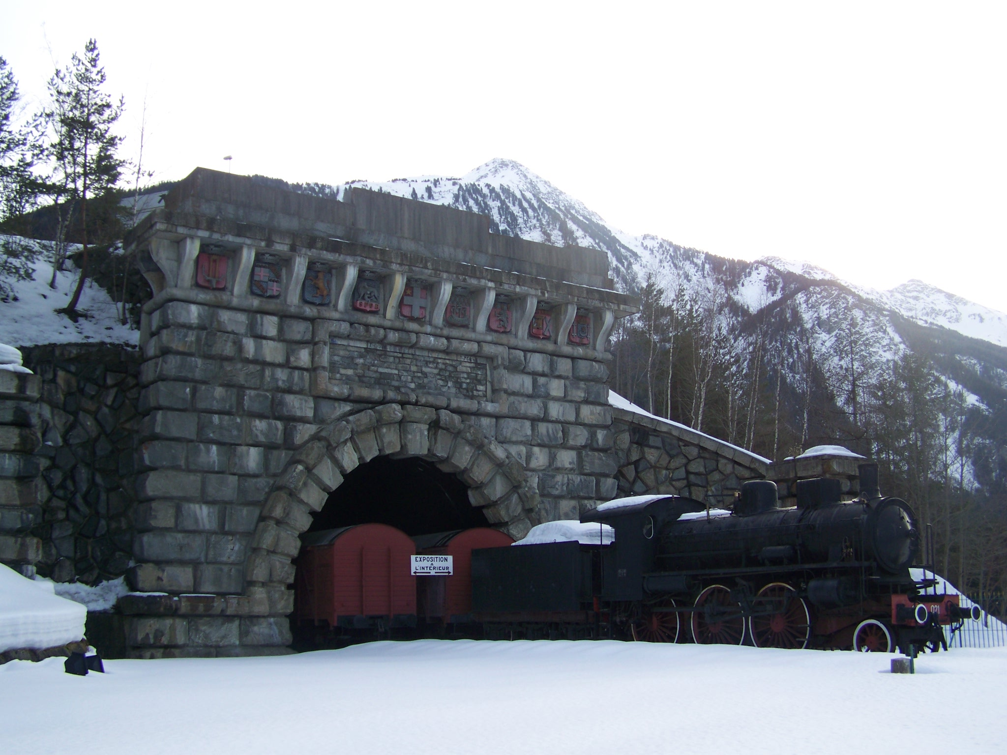 Former railroad tunnel of Mont-Cenis entrance, in Savoie, France.